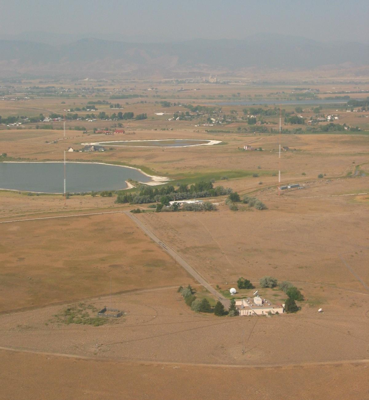 WWV from helicopter